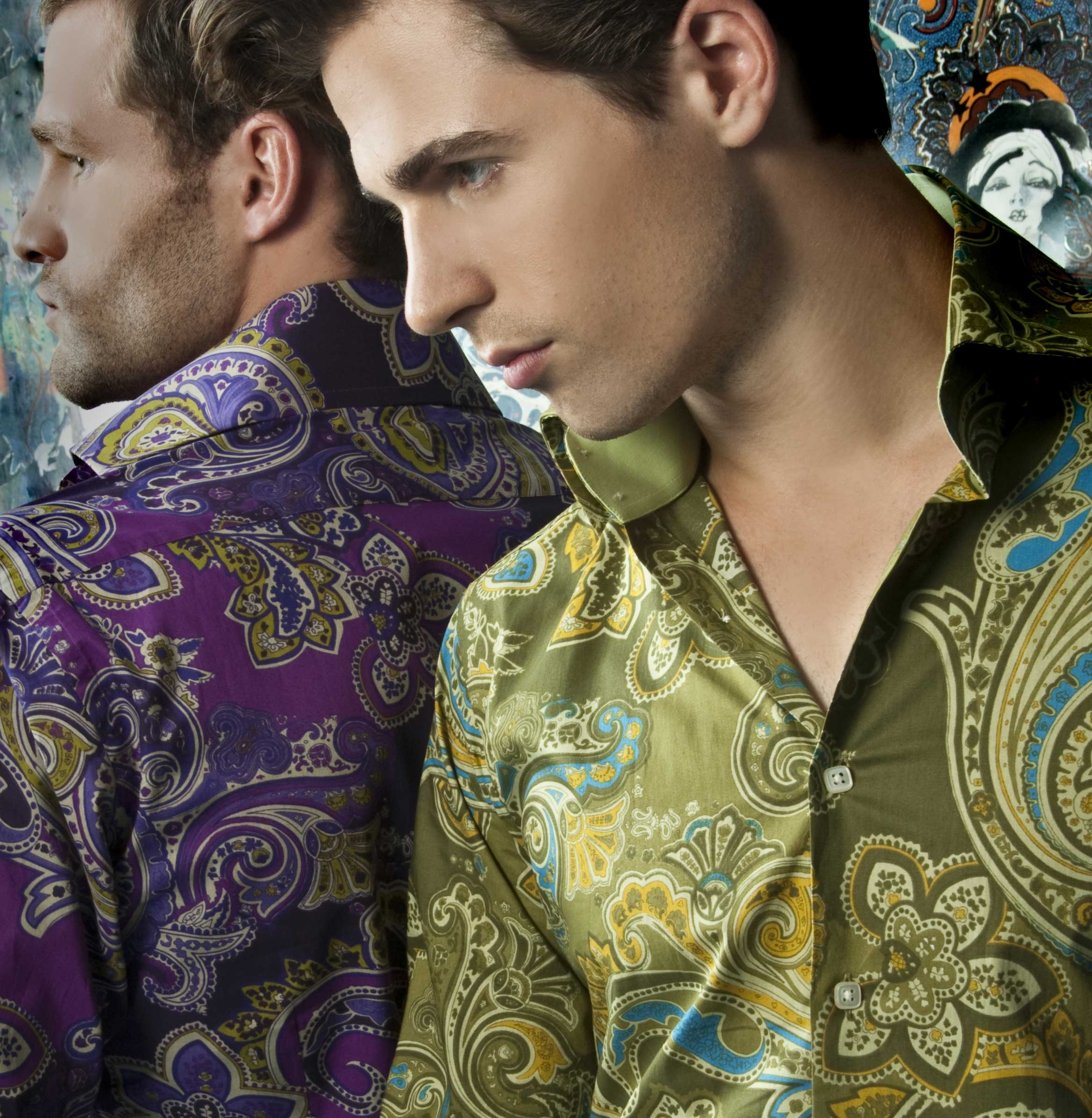 Paisley Pattern by Hawes & Curtis